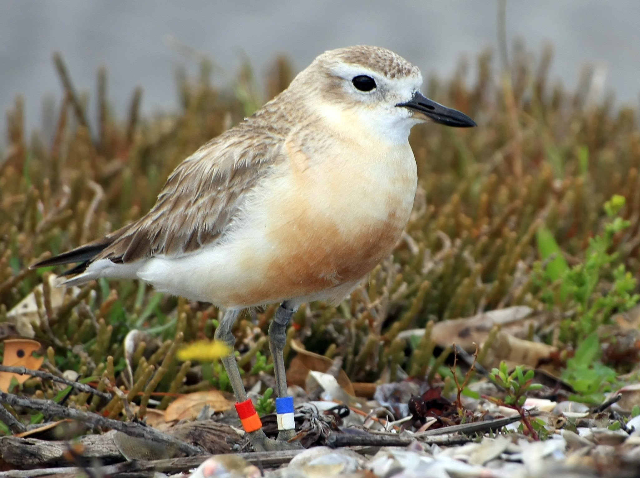 New Zealand Dotterel ? on Waiheke Island (c.f. File:New_Zealand_Dotterel_Waiheke_Island.jpg)